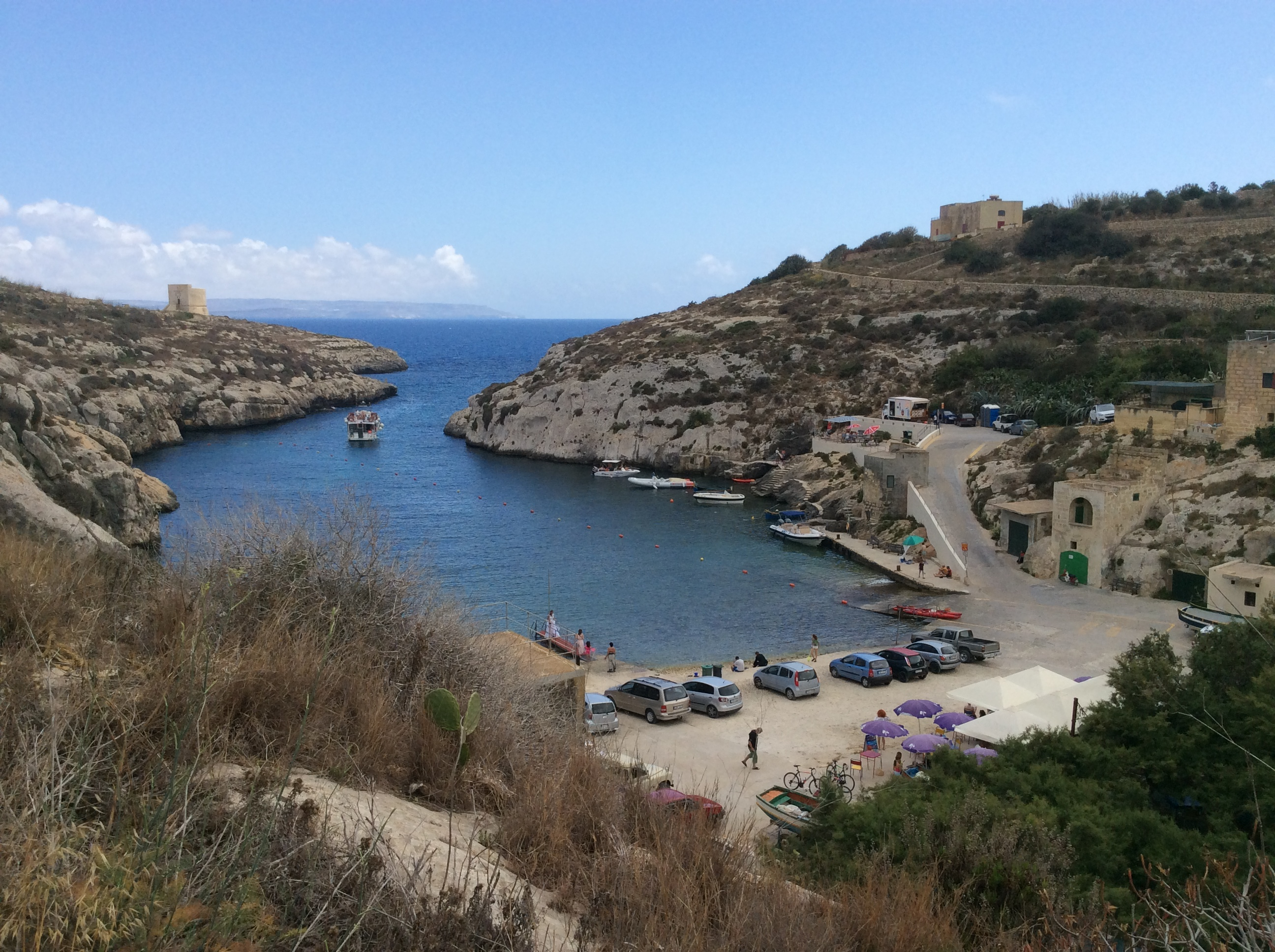 Mgarr ix-Xini Torri